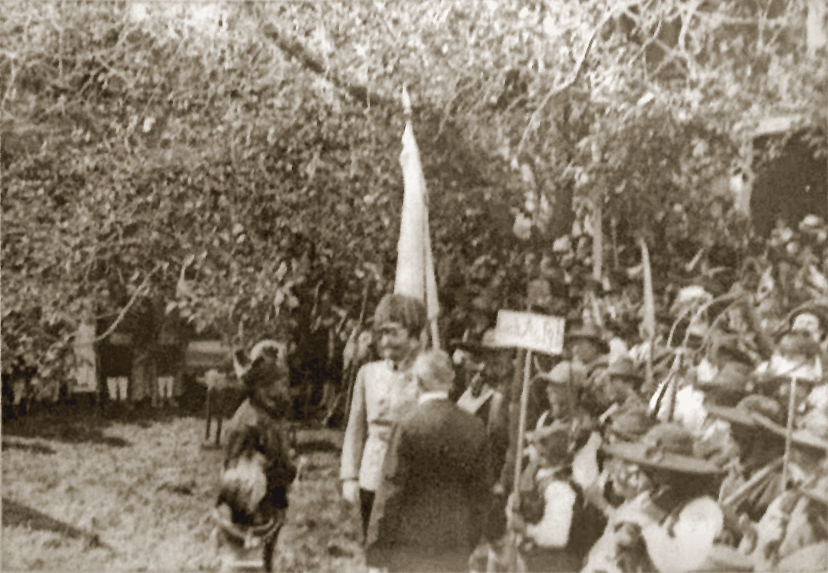 Convenor Dr. Möll introduces the imperial hauler Rudolf Hartmann, donor of the memorial plaque, to His Imperial Highness Archduke Eugen. Algund, Peter Talgut-Festival, 05/27/1901.